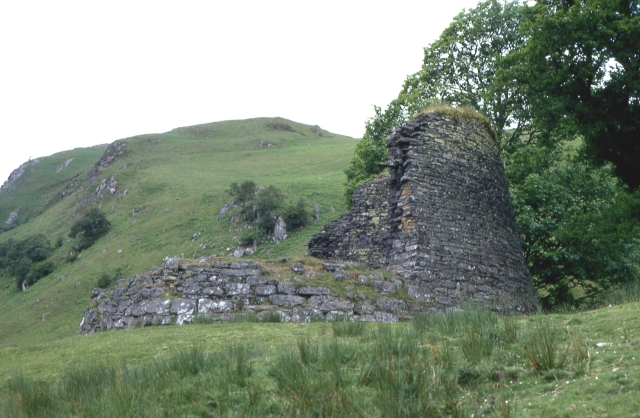 Dun Troddan. Archaeologists are still not agreed about the exact purpose of brochs like Dun Troddan and its neighbour Dun Telve.